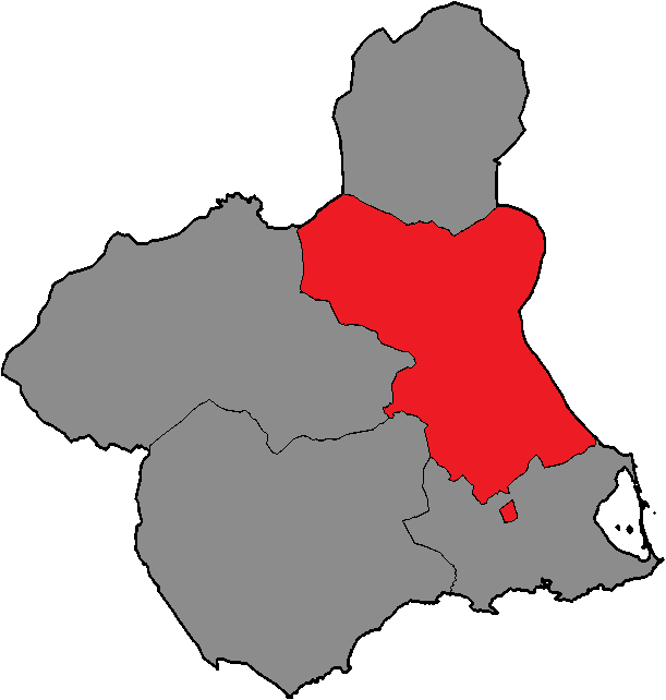 Murcian Regional Assembly District Three.